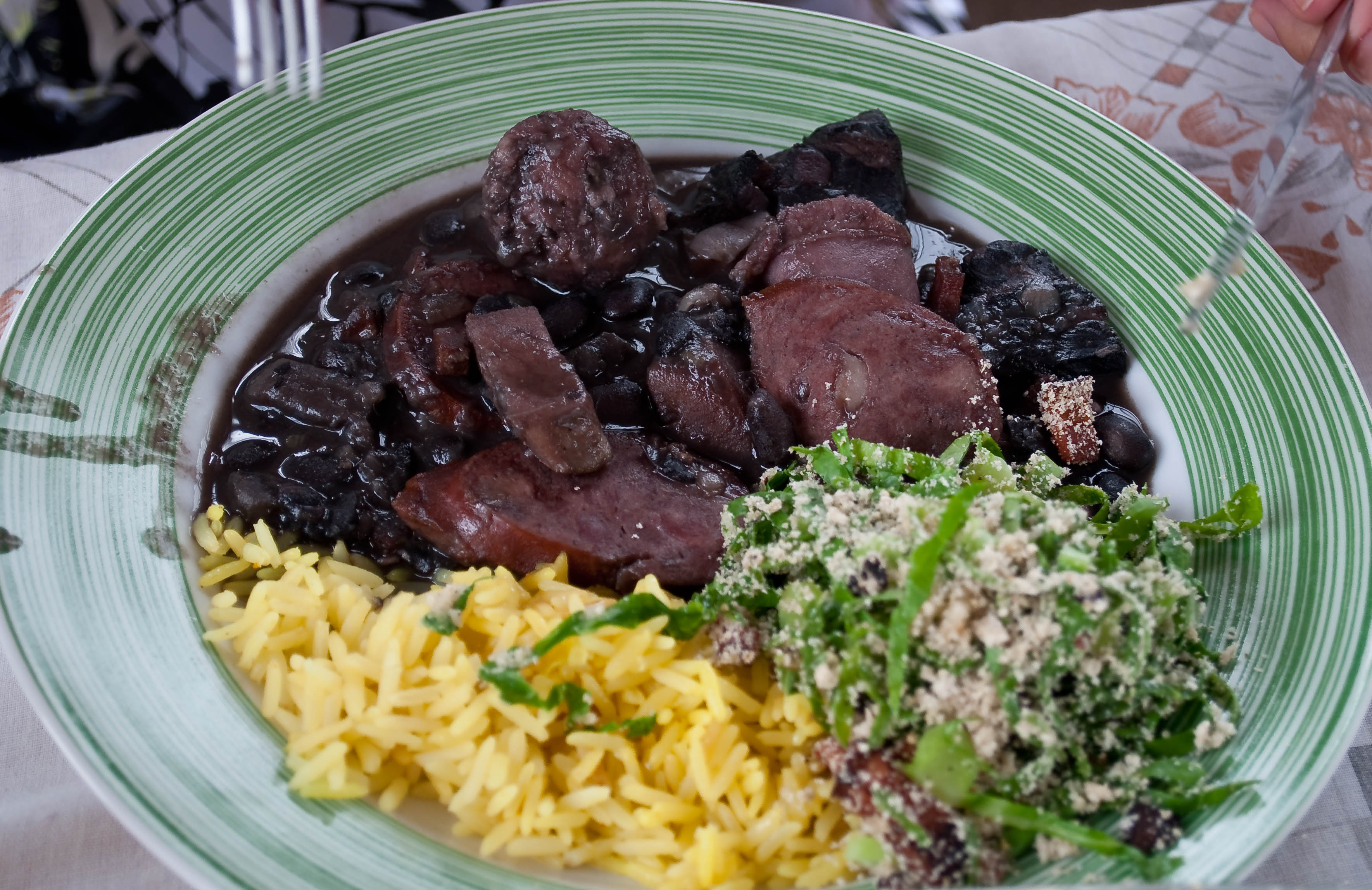 Feijoada served in Curitiba, Brazil